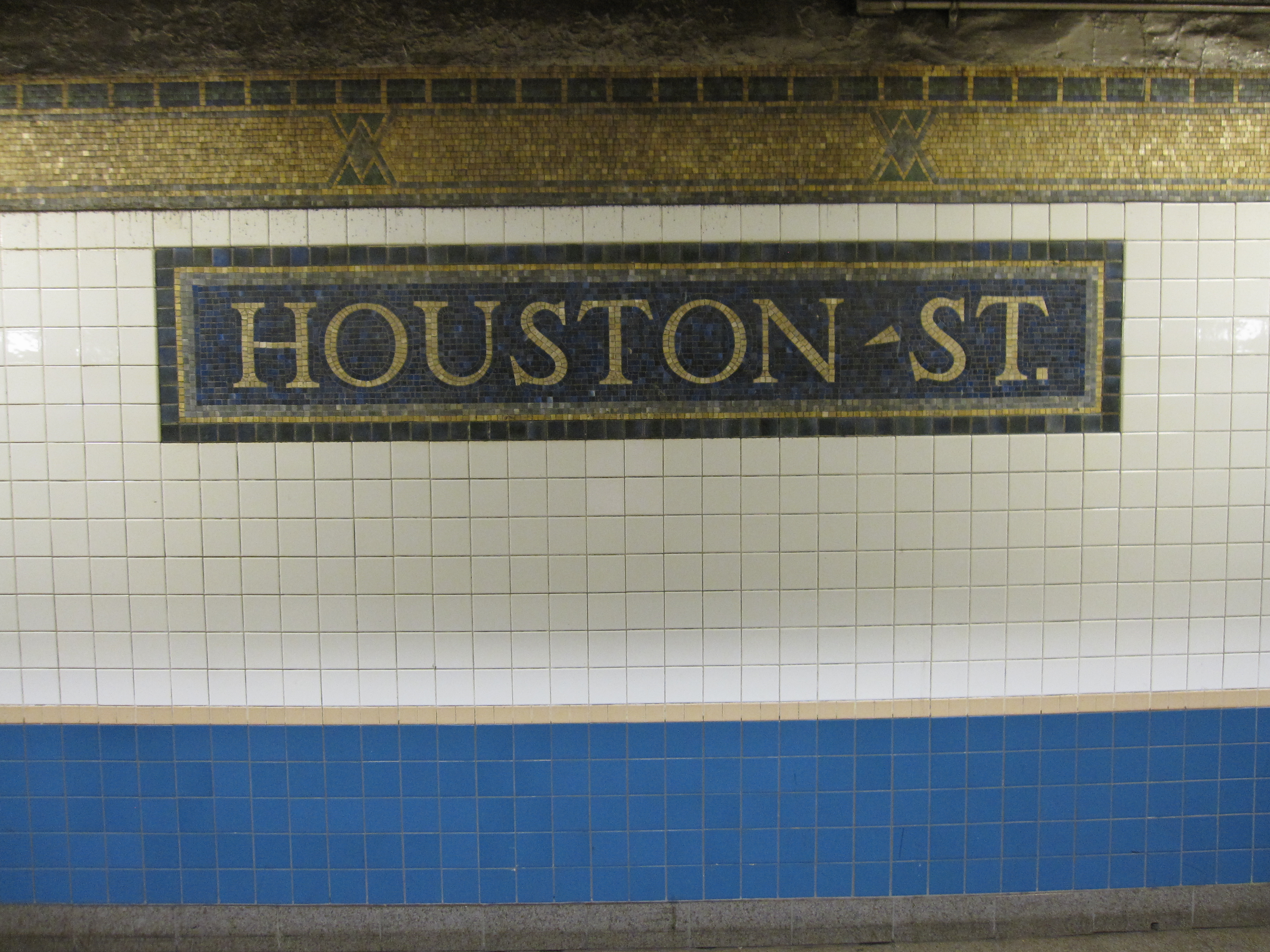 Houston Street (IRT Broadway – Seventh Avenue Line)